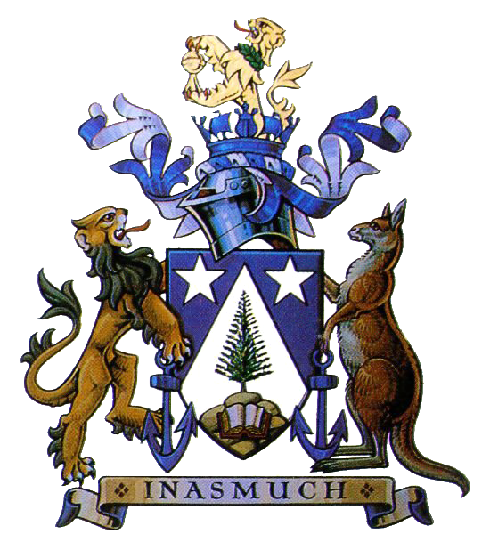 Coat of arms of Norfolk Island